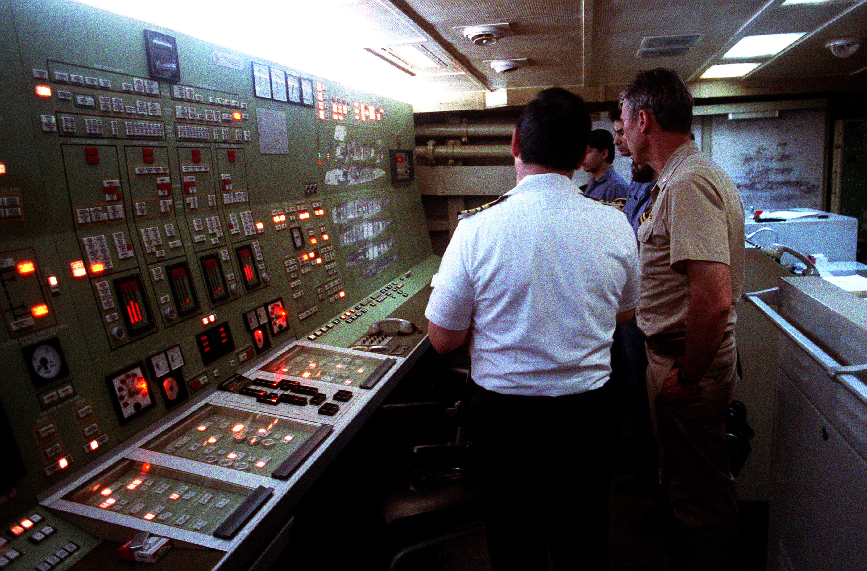 Capt. Douglas C. Bauer, right, a U.S. Navy historian, tours the engine room of the Greek frigate HS Limnos (F-451) with Cmdr. C. Nikitiadis, the ship's commanding officer. The Limnos is one of the ship's of the Maritime Interdiction Force (MIF), which was formed during Operation Desert Shield to enforce U.S. sanctions against Iraq.